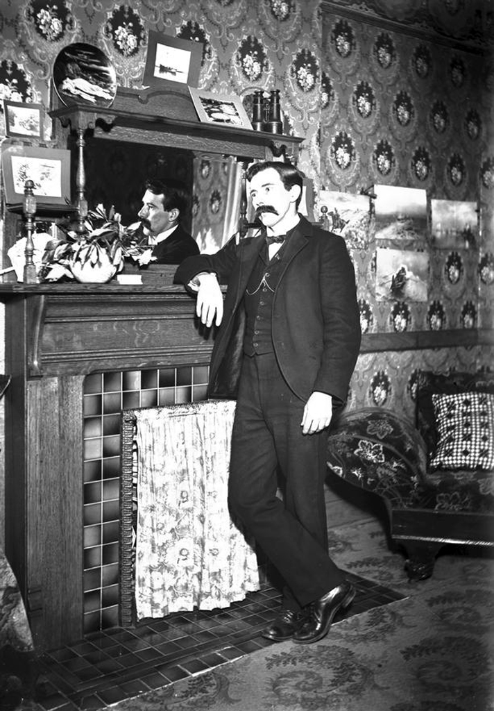 Photograph of William Jesse Goad Land (1865-1942), professor of Plant Morphology at the University of Chicago, Chicago, Illinois. Reproduced from a 12.6 x 17.6 cm glass negative.